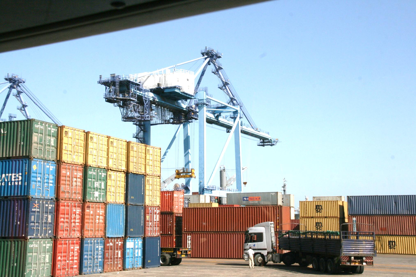 Photo credit: USAID East Africa Trade Hub